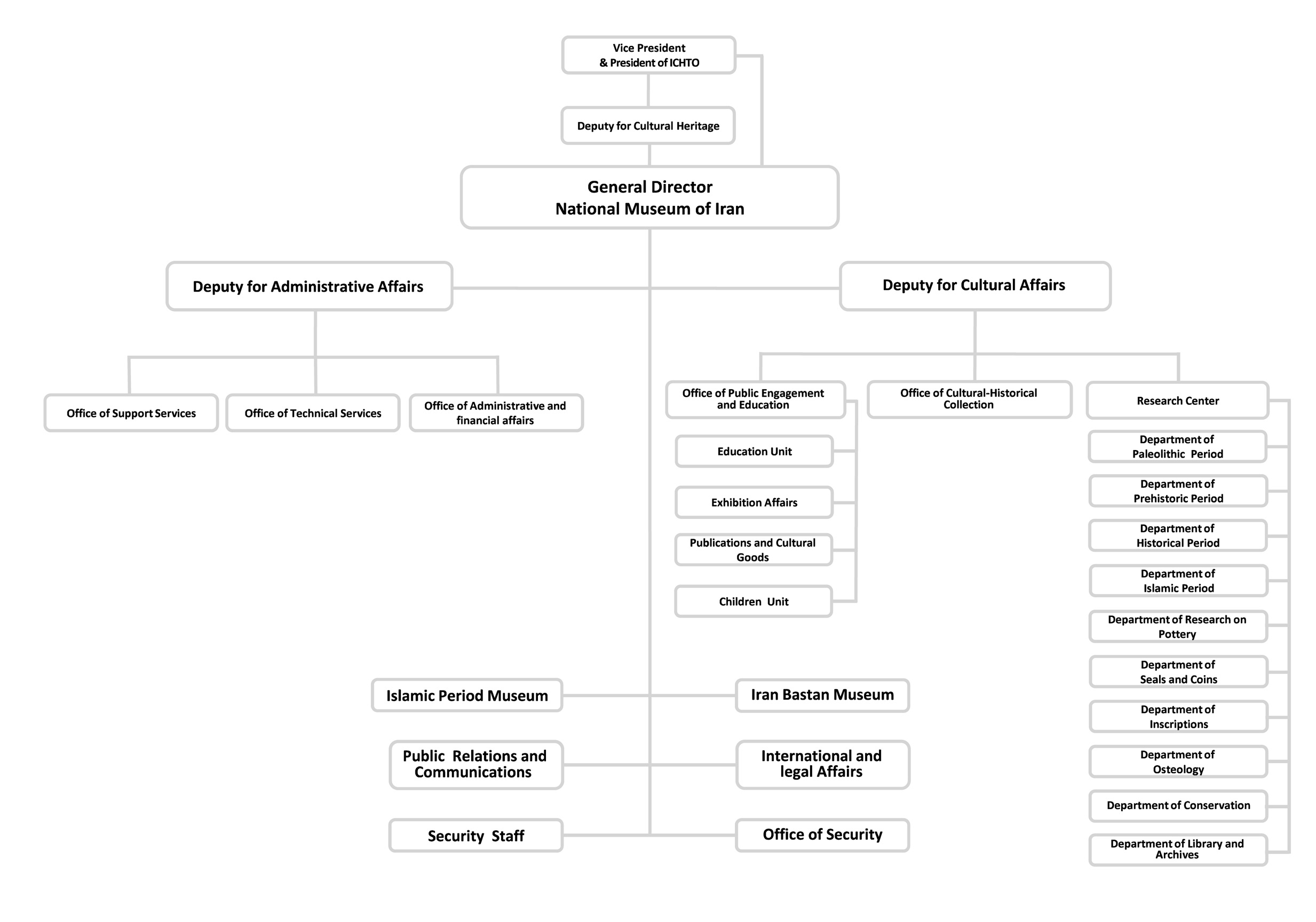 Organizational chart of National Museum of Iran